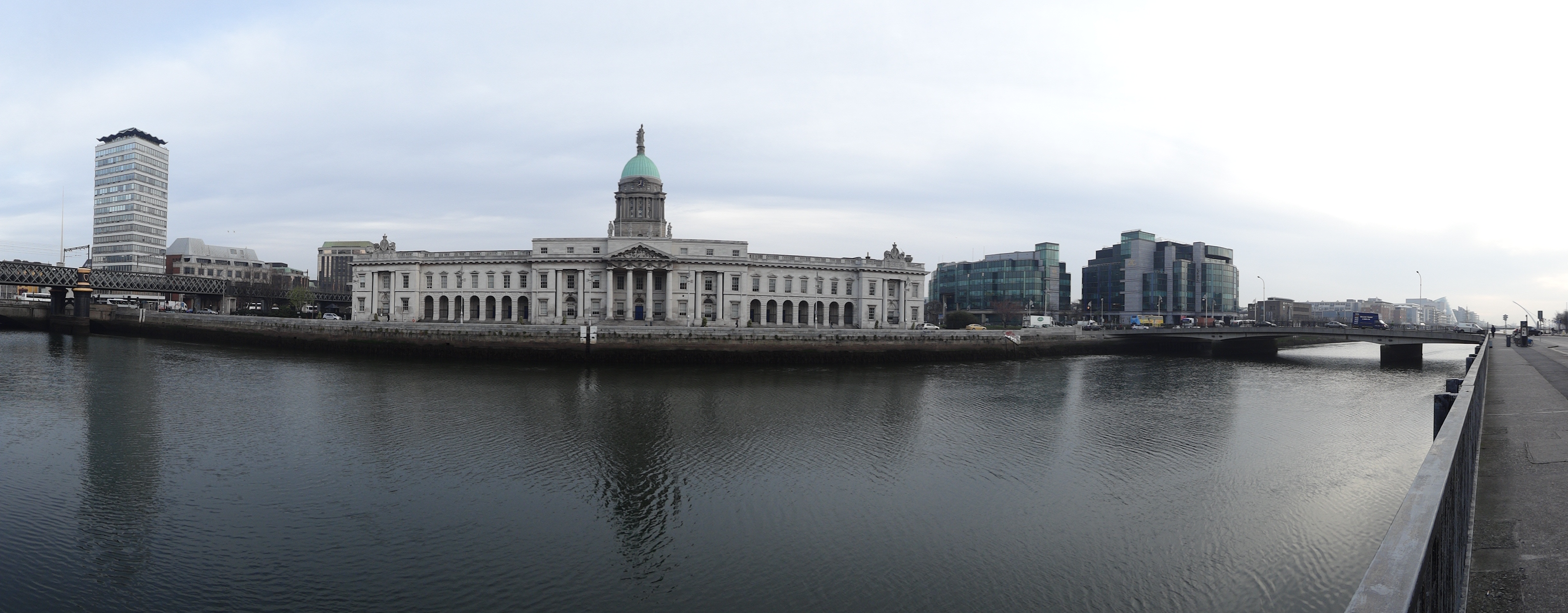 The The Custom House is in the centre of the frame, Liberty Hall is seen on the left, and the buildings on the right are part of the International Financial Services Centre. Further left, behind the Talbot Memorial Bridge, there's a glimpse of the Samuel Beckett Bridge and The Convention Centre Dublin.